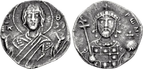 Romanus IV Diogenes. 1068-1071. AR 1/3 Miliaresion (13mm, 0.44 g, 6h). Constantinople mint. Half-length bust of the Theotokos facing and orans; barred M/ӨK-Ө/RӨ across field / Half-length bust of Romanus facing, wearing crown and loros, holding patriarchal cross and globus cruciger; PωM’ to right.